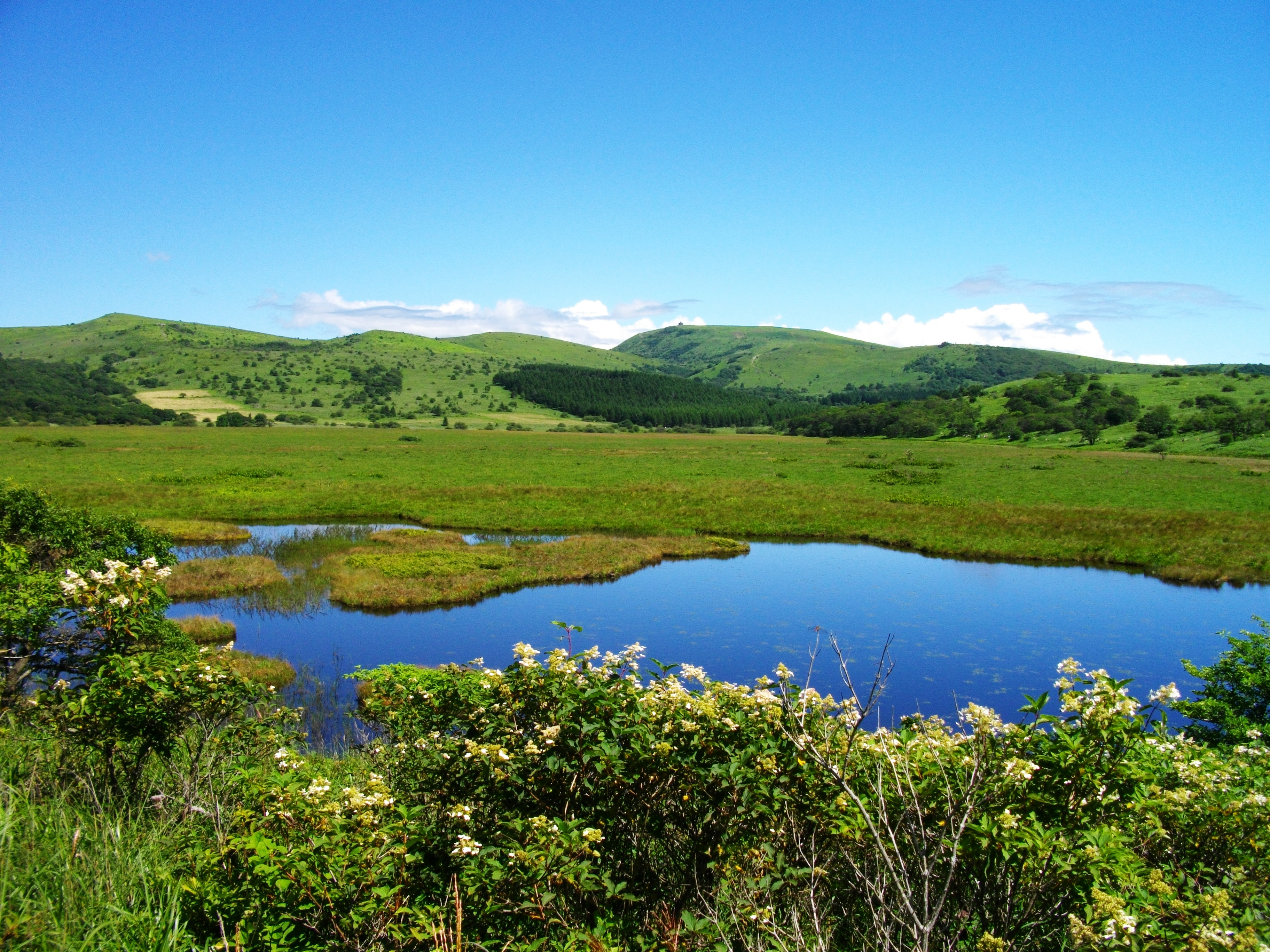 Mount Omekura, Mount Chochomi and Mount Kuruma, Chushin Highland, Nagano, Japan. From Yashima Moor